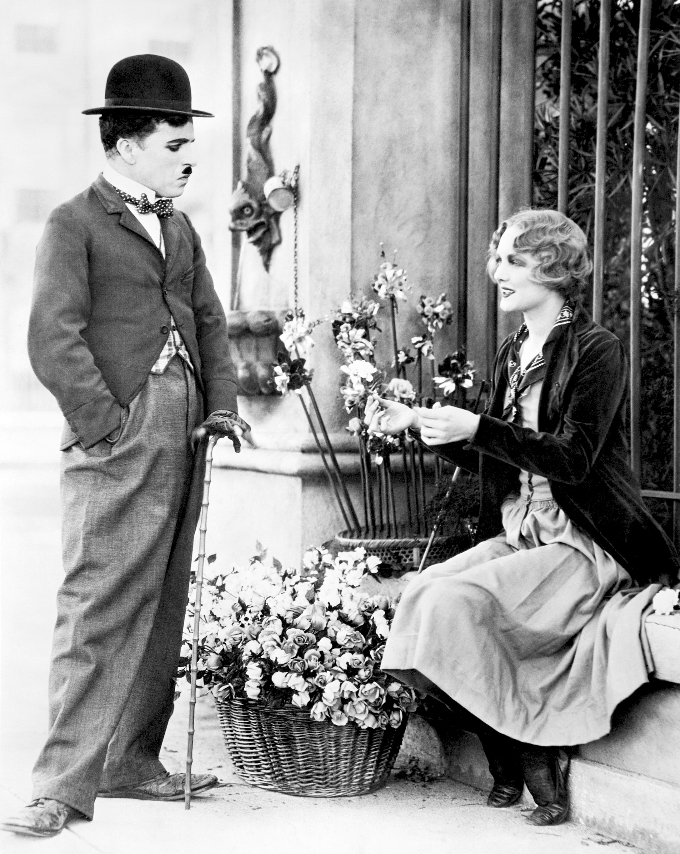 Promotional photograph for Charlie Chaplin's 1931 film City Lights, depicting Chaplin as the Tramp and his co-star Virginia Cherrill as the Blind Flower Girl.